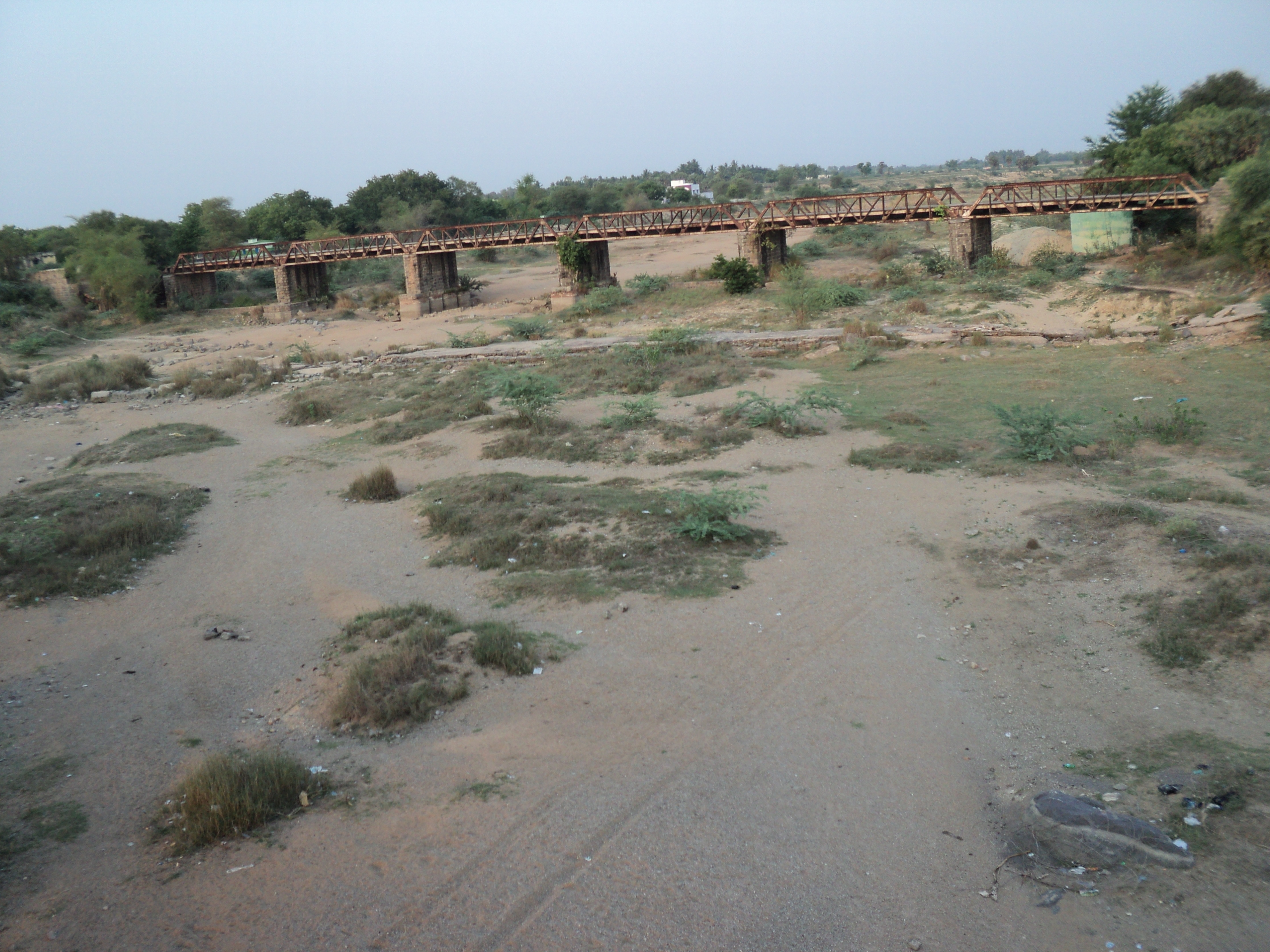 gedilam river tamilnadu india